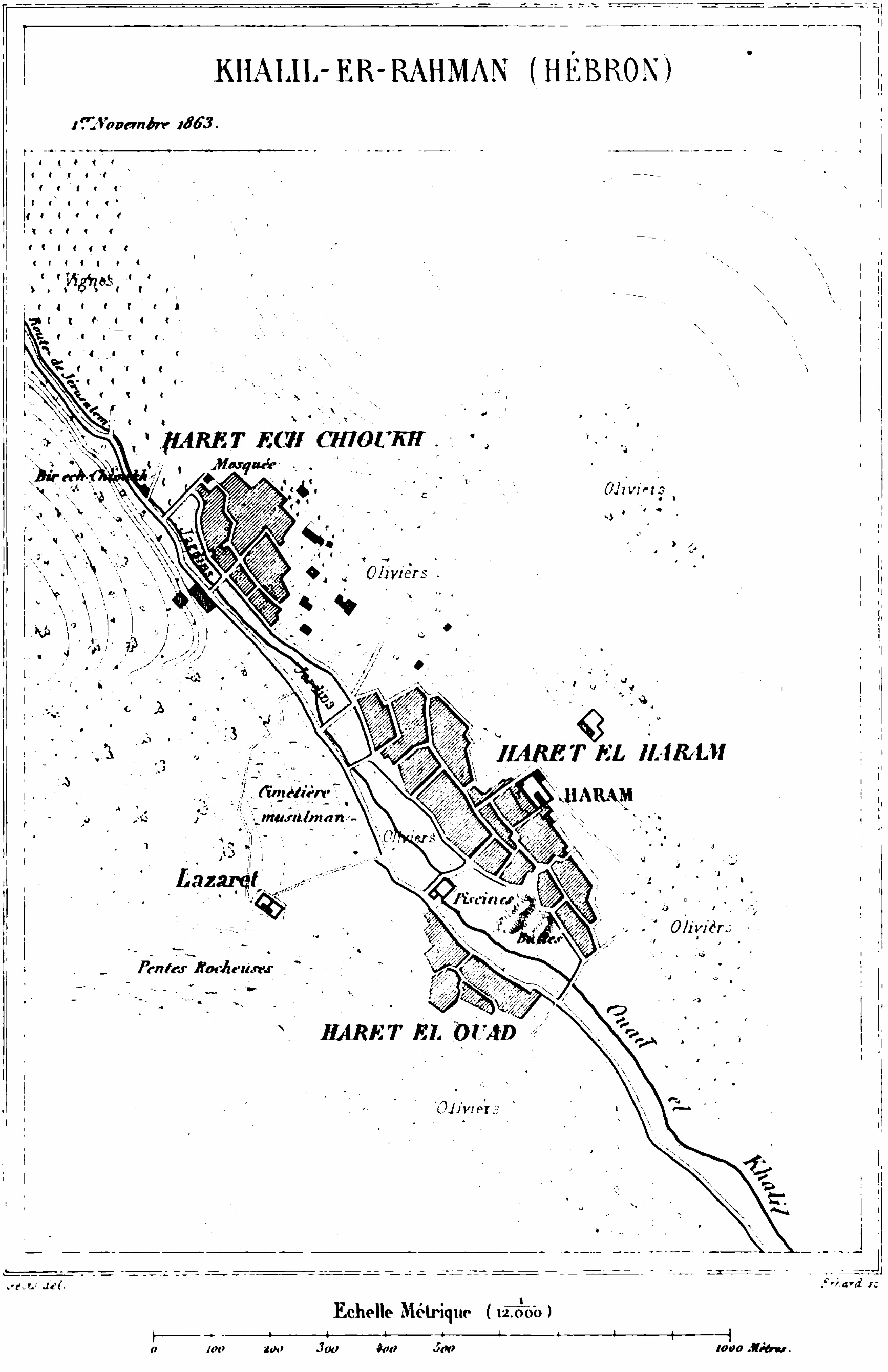 Khalil er Rahman (Hebron) by Louis Félicien de Saulcy